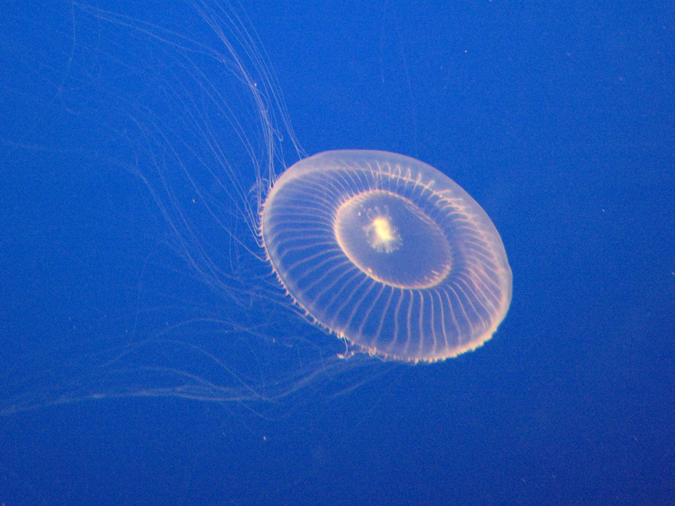 Jellyfish.